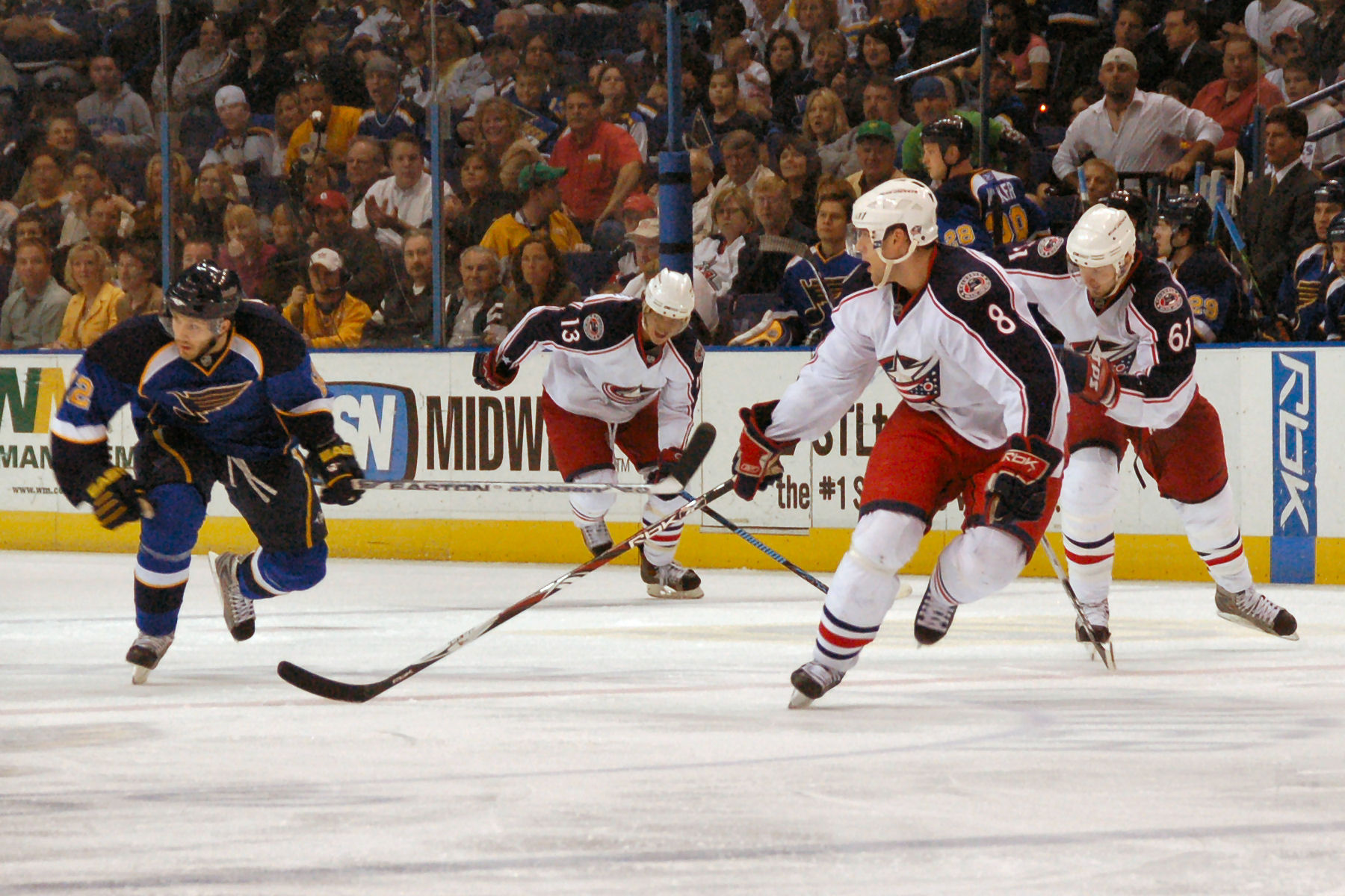 #12 Lee Stempniak breaks away against #8 Jan Hejda, #61 Rick Nash and #13 Nikolai Zherdev try to follow